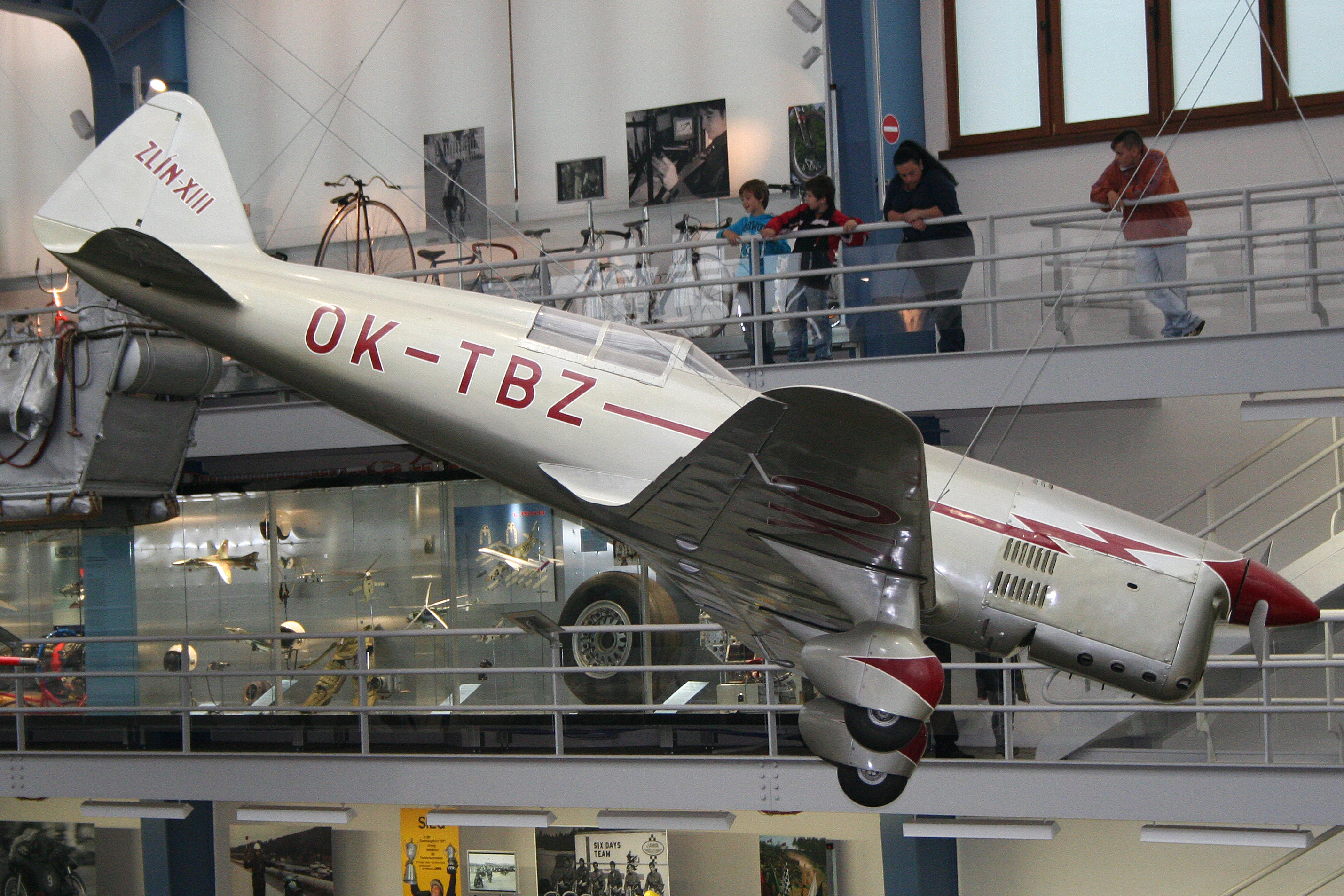 Originally built as a 2-seater, it was later converted as a single seat racer. Sadly, it never got to race. msn 1. National Technical Museum, Prague. Czech Republic. 07-10-2012